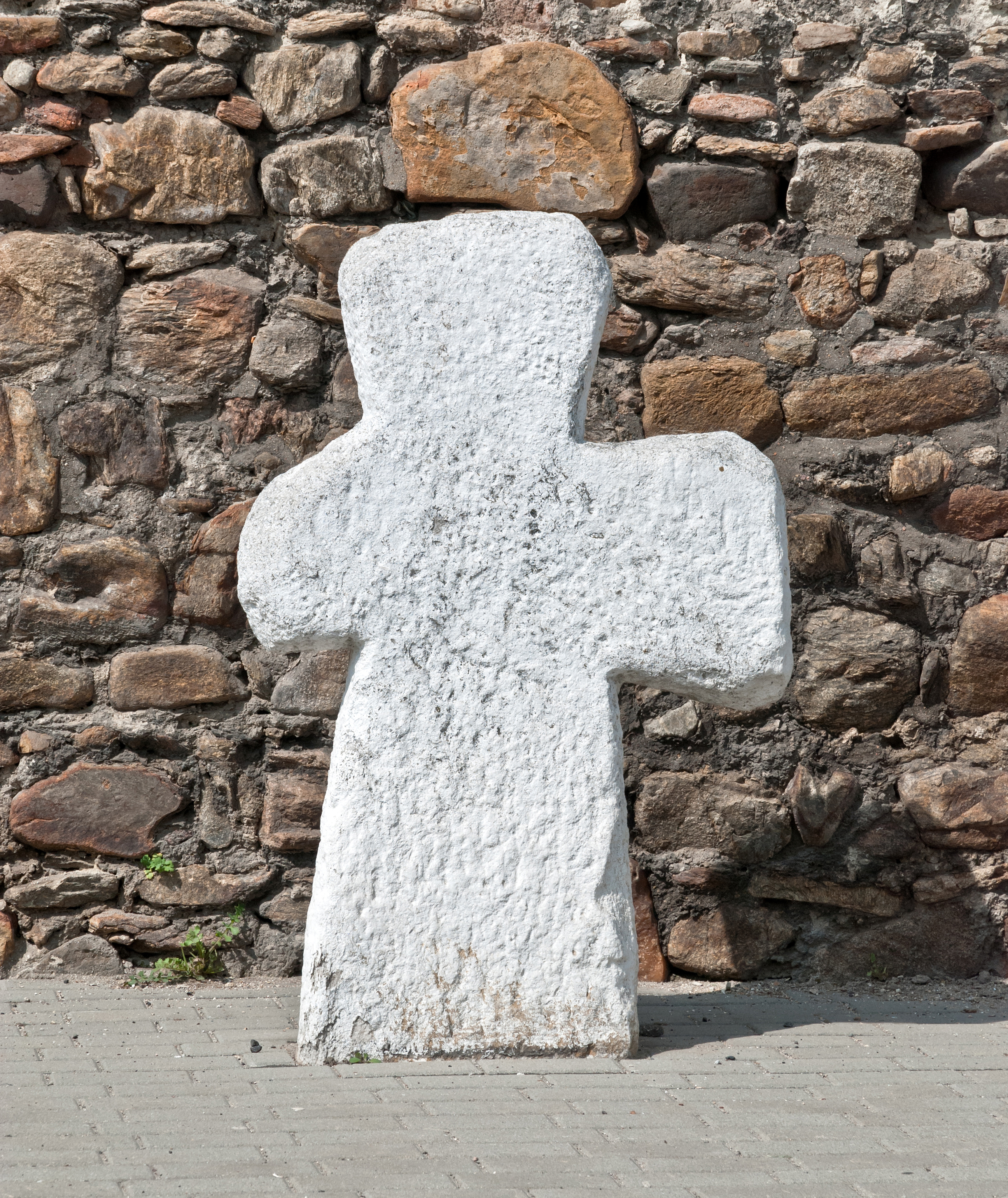 Saint George church in Kamienica, penitential cross